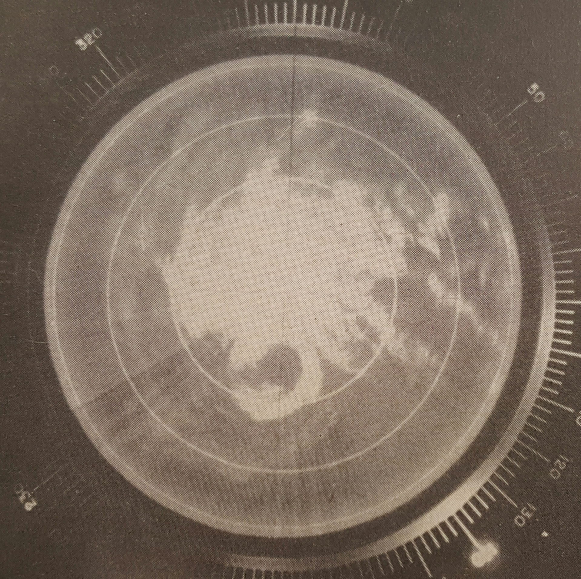 Hurricane Betsy (1956) on August 12th.